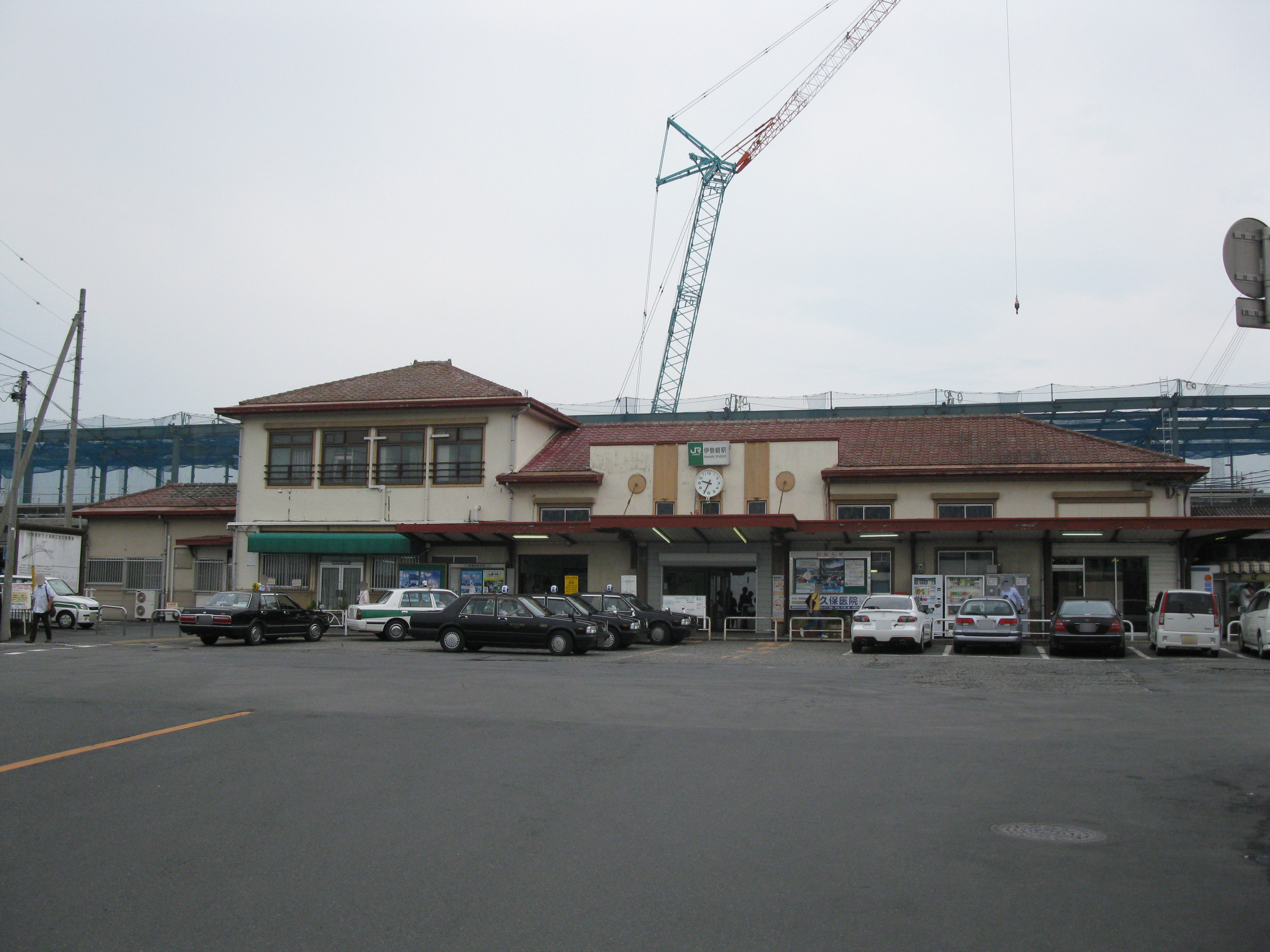 The south entrance to Isesaki Station on the East Japan Railway Ryōmō Line and Tobu Isesaki Line in Isesaki city, Gumma prefecture, Japan